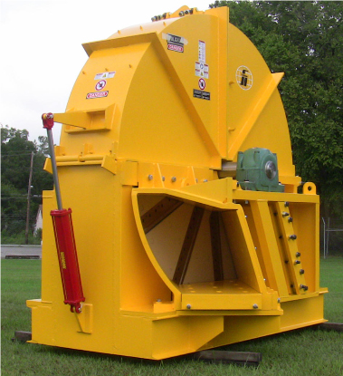 A modern disc chipper "Fulghum Industries 96”-10K CCW disc chipper"